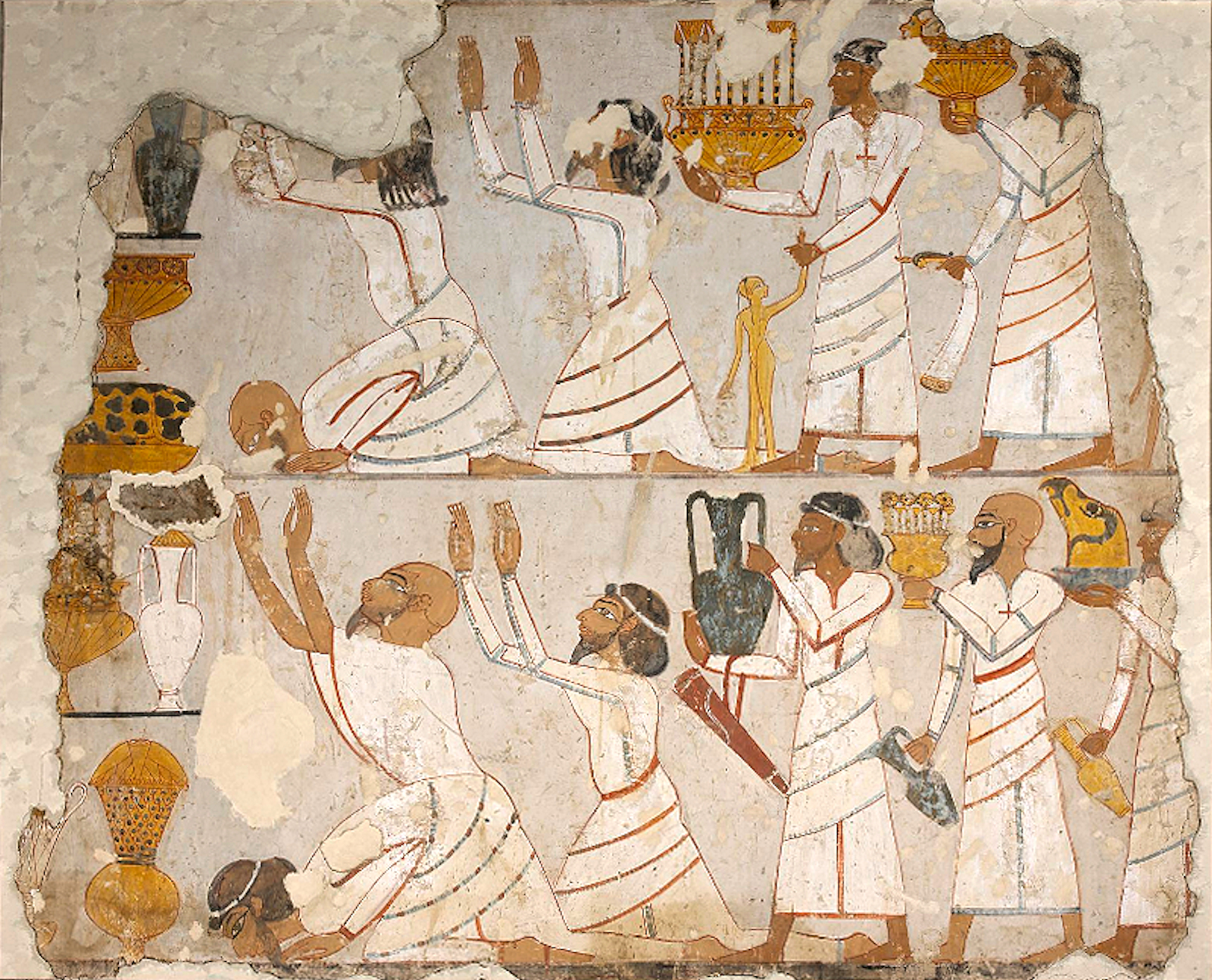 West Asiatic tribute bearers tomb of Sobekhotep 18th Dynasty Thebes